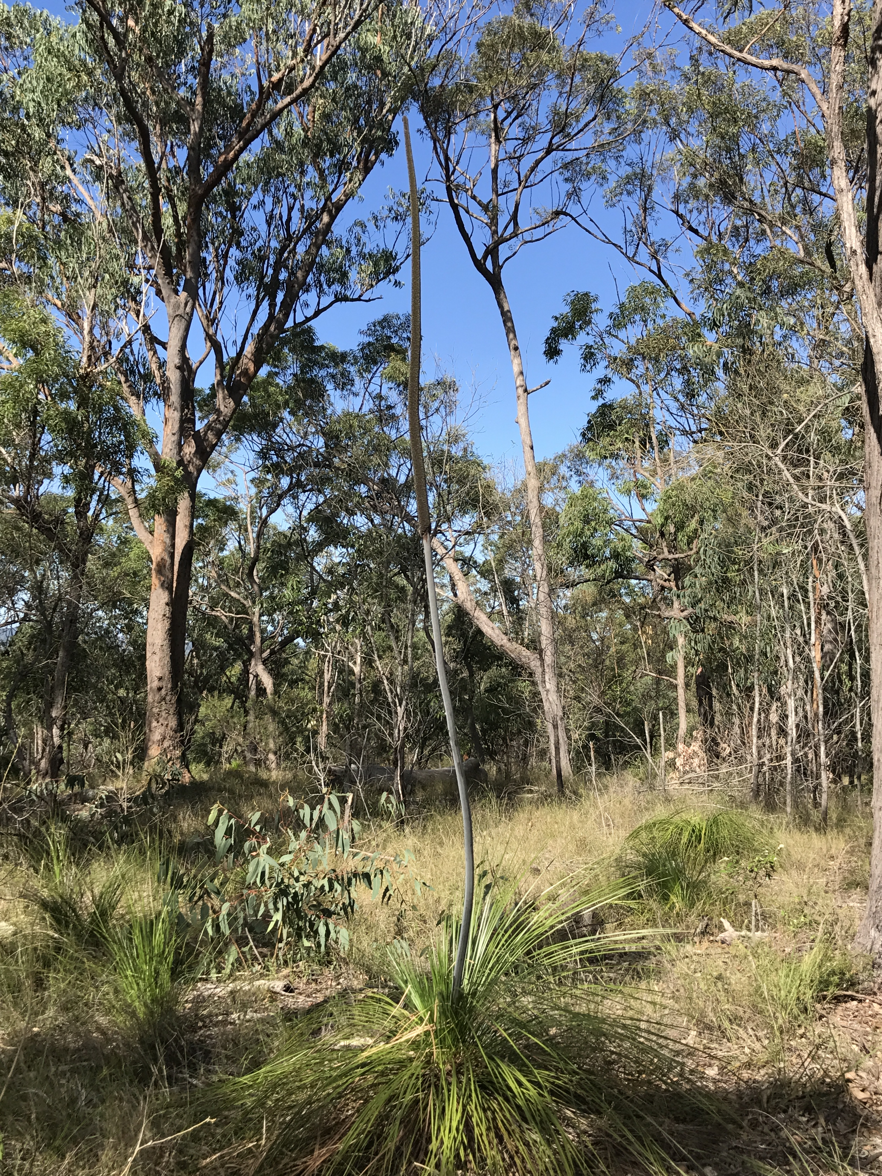 Karawatha Forest, autumn 2017